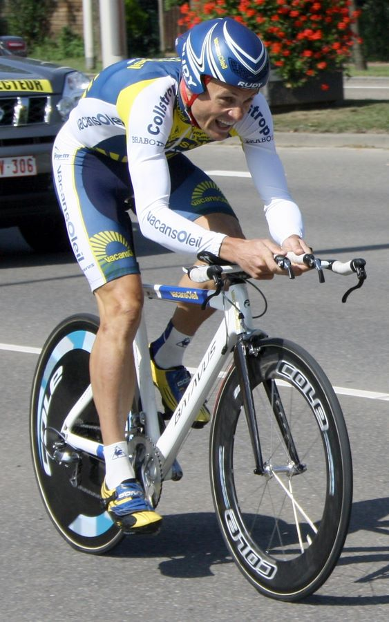 Baden Cooke at the 2009 Eneco Tour prologue